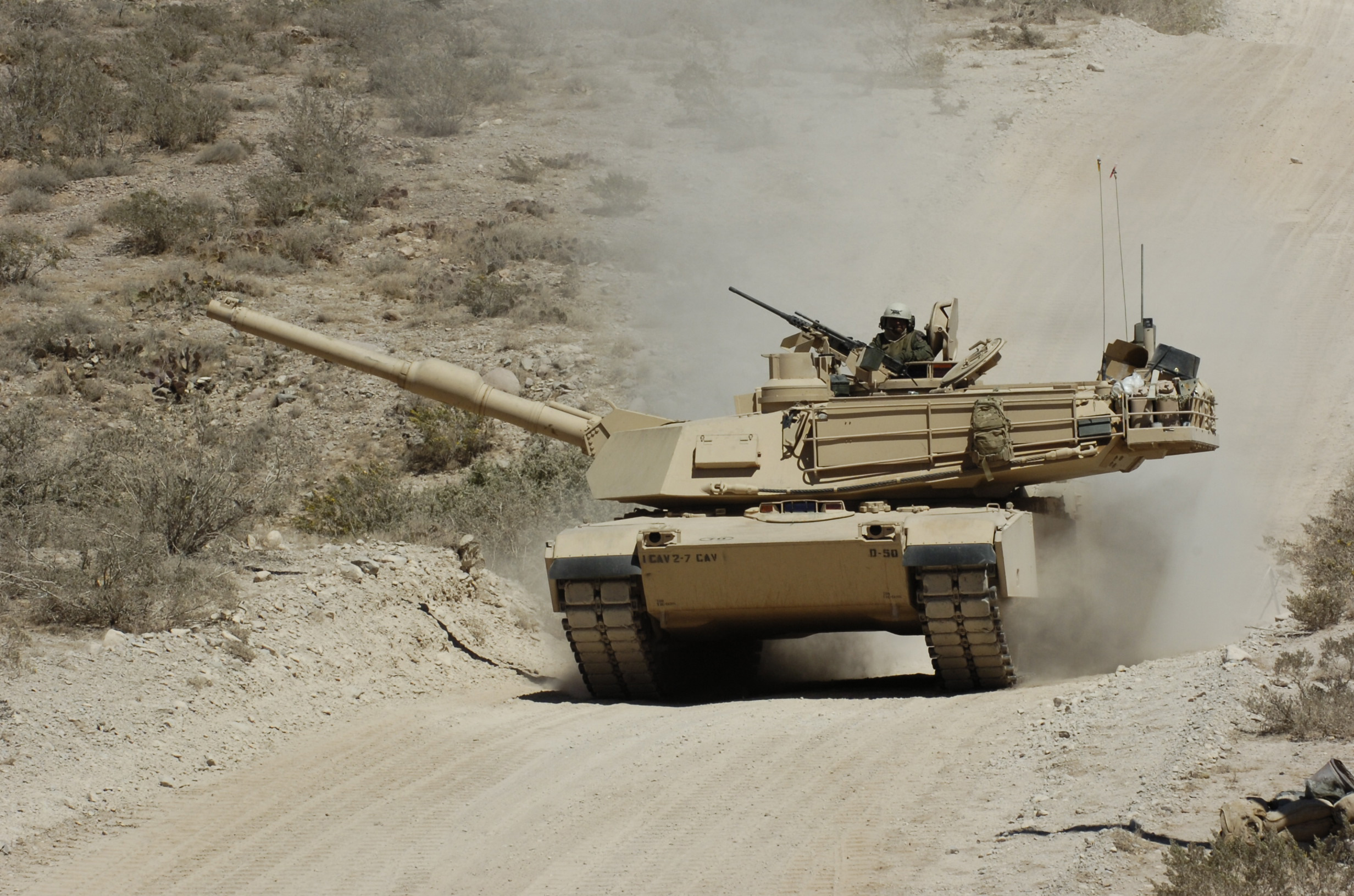 An Abrams tank crew, 2nd Battalion, 7th Cavalry Regiment, makes its way off Fort Bliss’ Doña Ana Range after completing their qualification table. The unit is the first to have the Common Remotely Operated Weapons Station mounted on Abrams tanks.